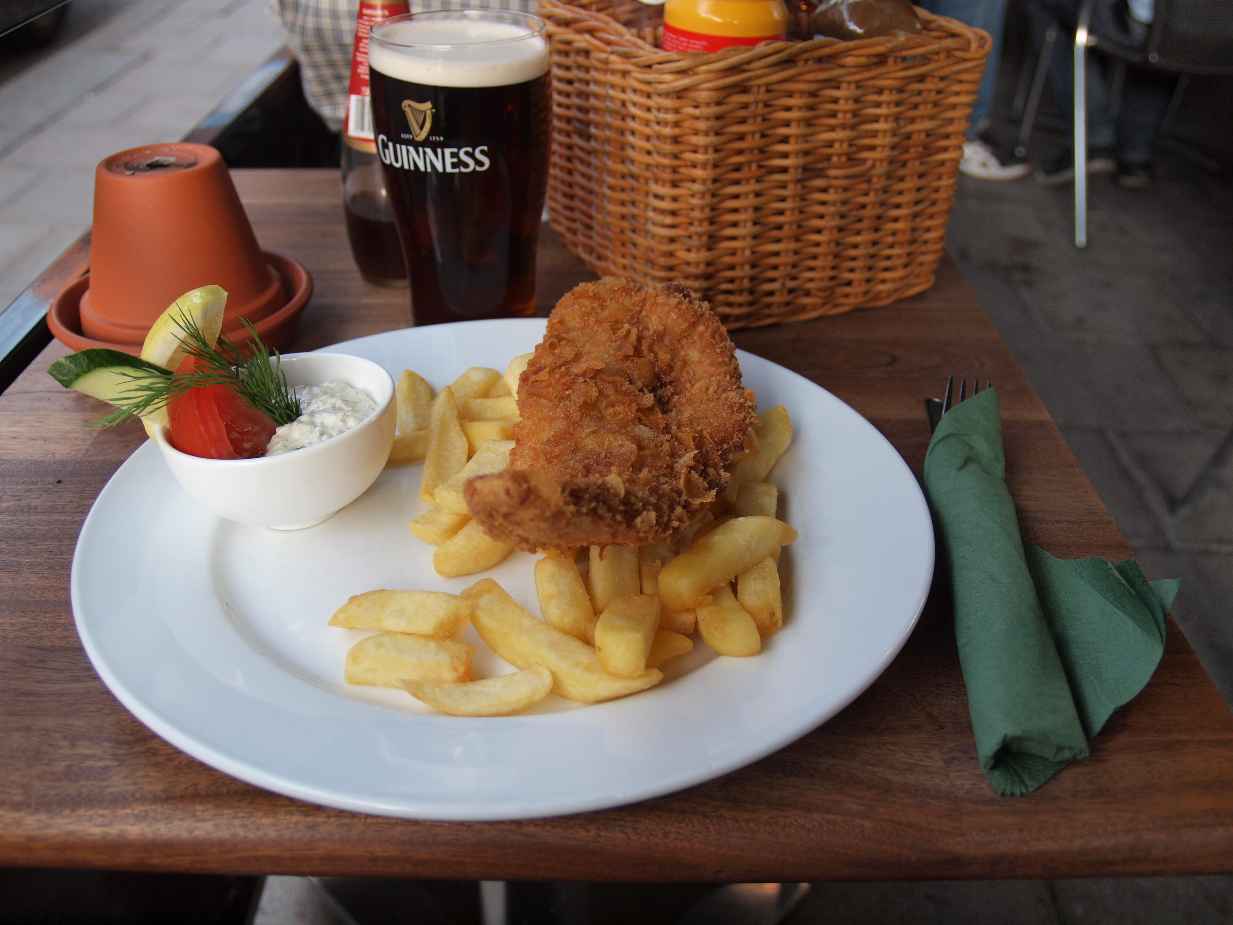 A plate of fish and chips, plus a glass of Guinness beer, served at a restaurant in Kungsholmen, central Stockholm, Sweden.